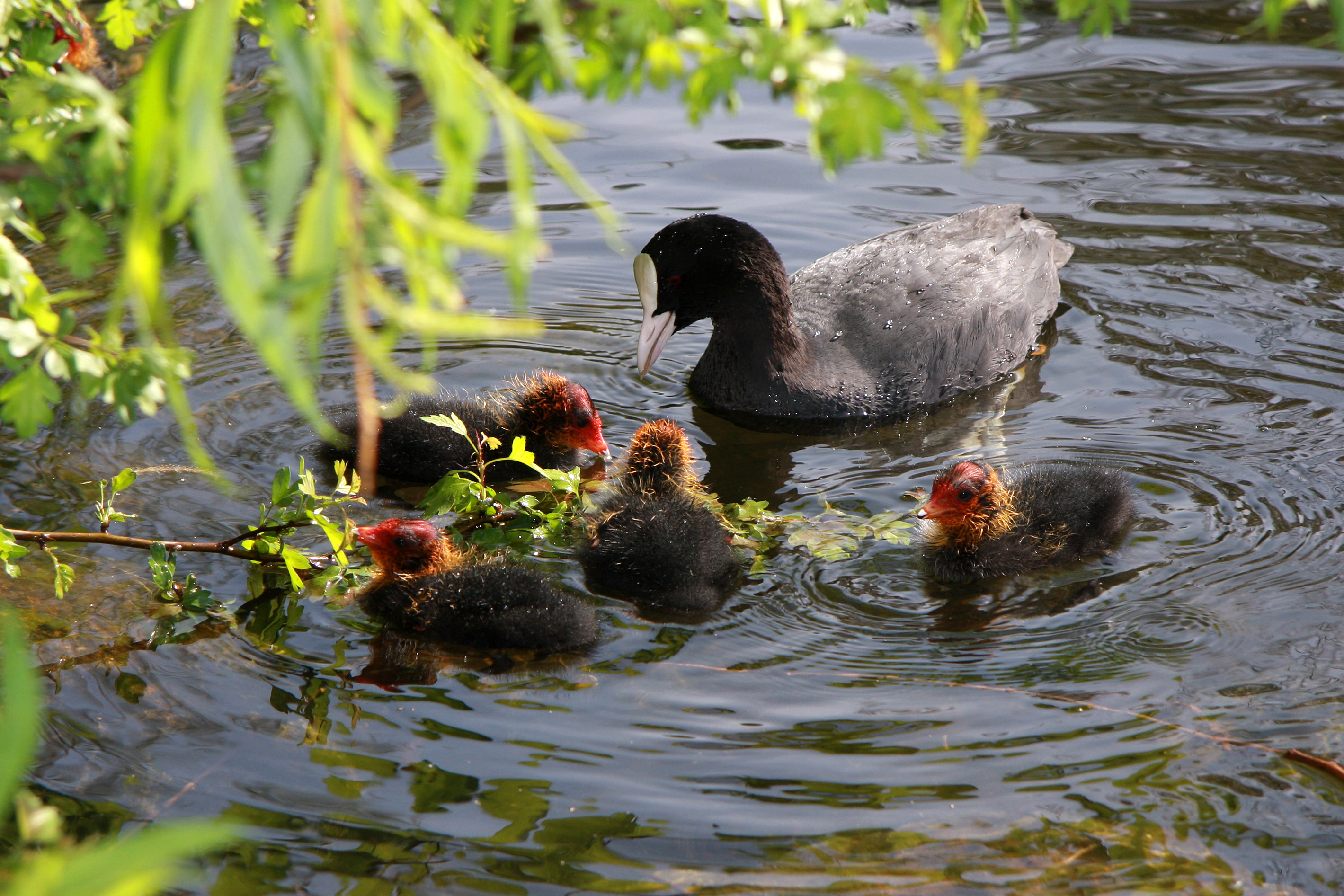 Eurasian Coot family (Fulica atra) in Stadsparken city park in Lund, Sweden